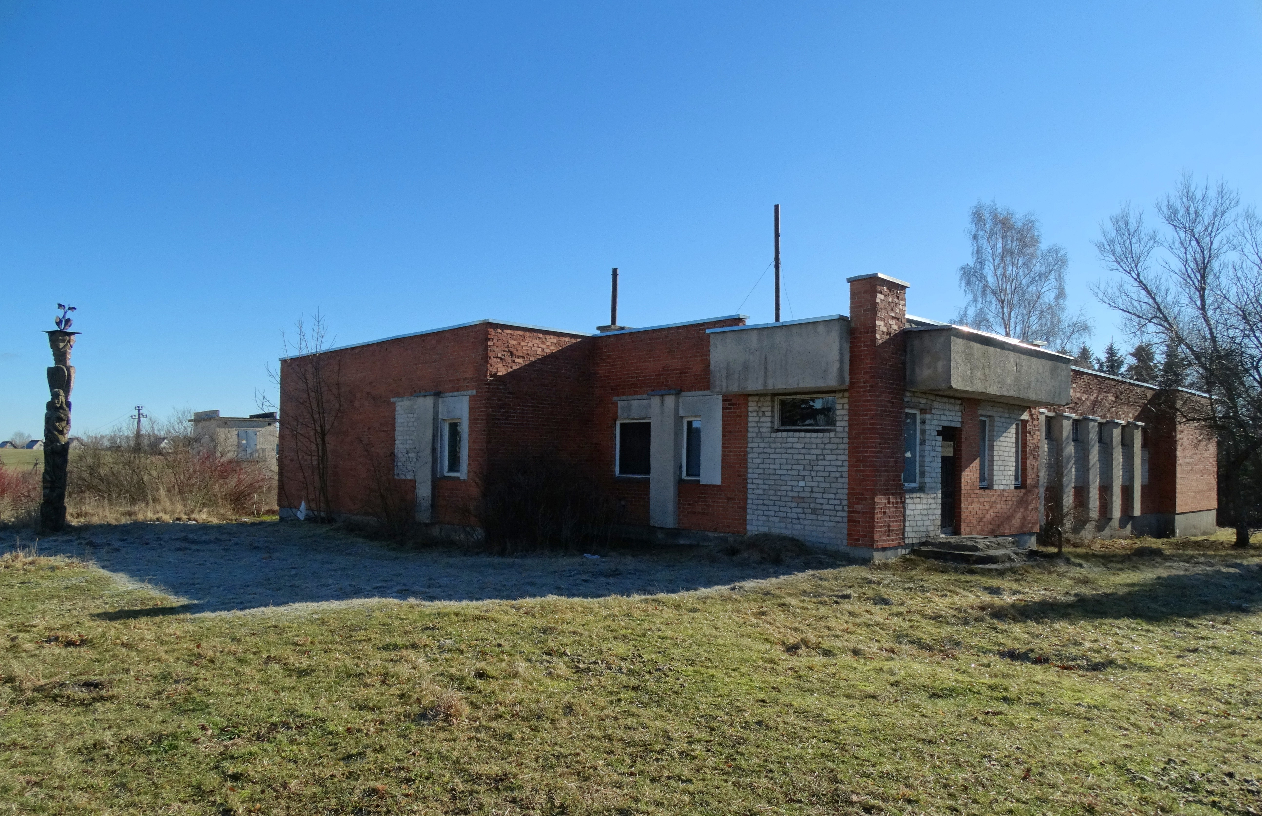 Abandoned building, Eičiūnai, Alytus district, Lithuania